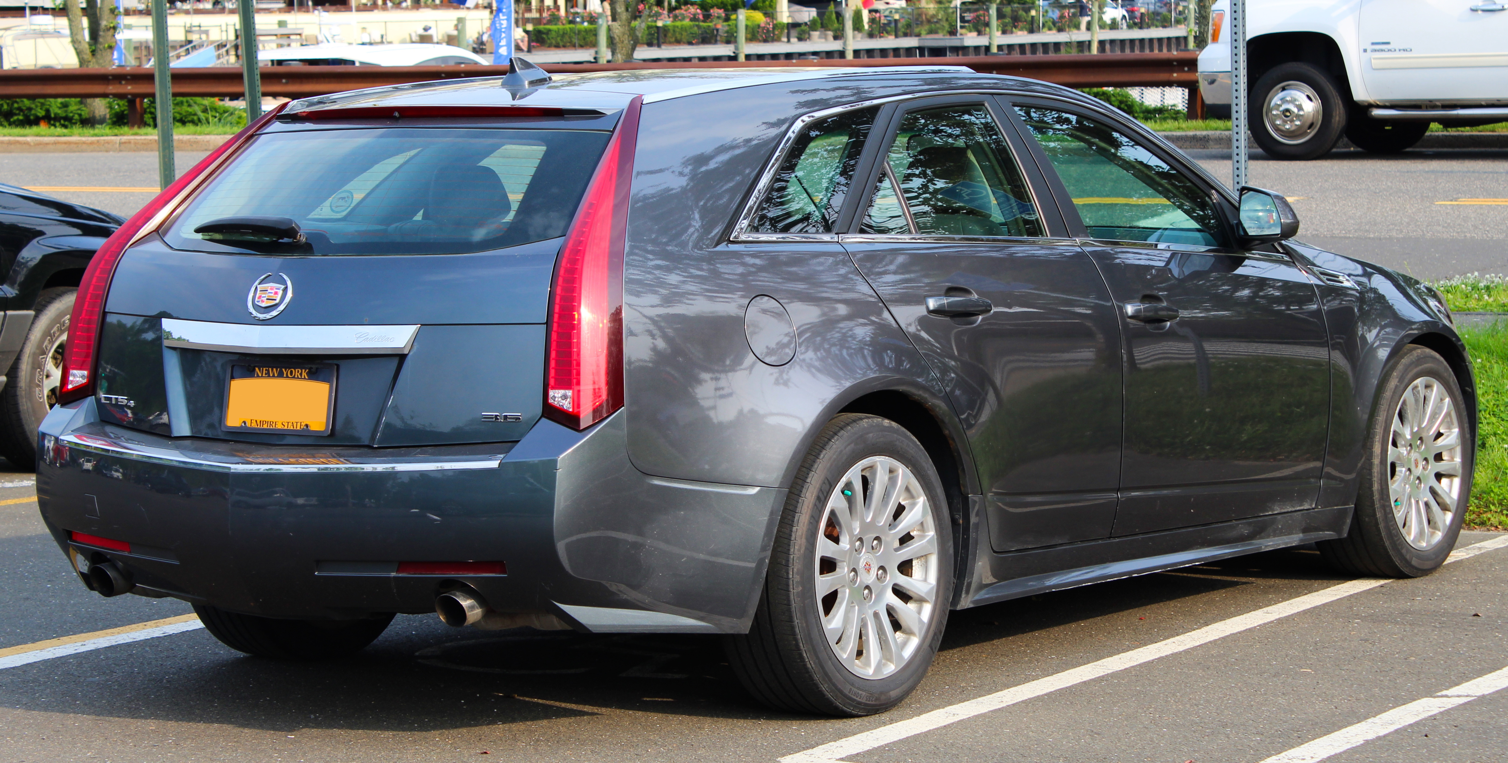 A 2010 Cadillac CTS 3.6 Wagon photographed in Greenwich Concours d'Elégance Hagerty parking lot, Connecticut, USA